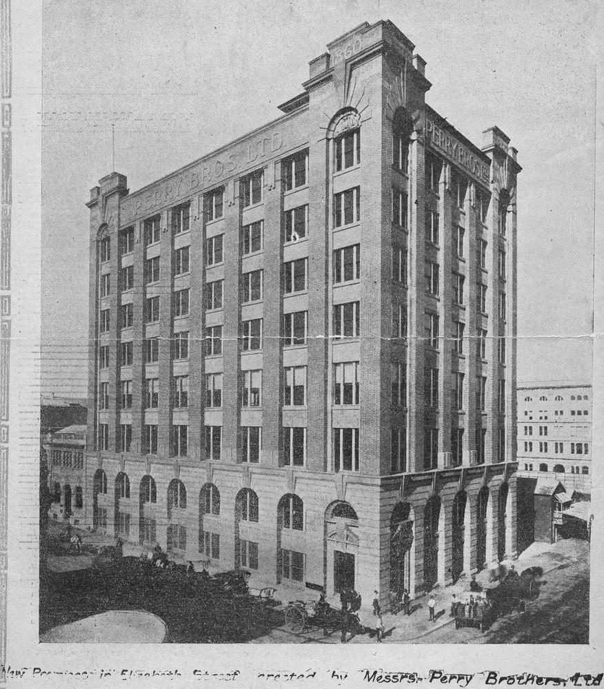 Perry Brothers premises in Elizabeth Street Brisbane Queensland, 1913